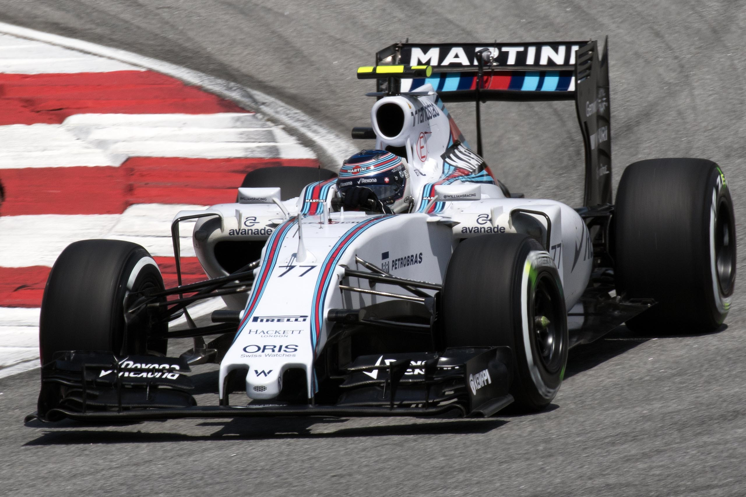 Formula One 2015 Rd.2 Malaysian GP: Valtteri Bottas (WilliamsF1)